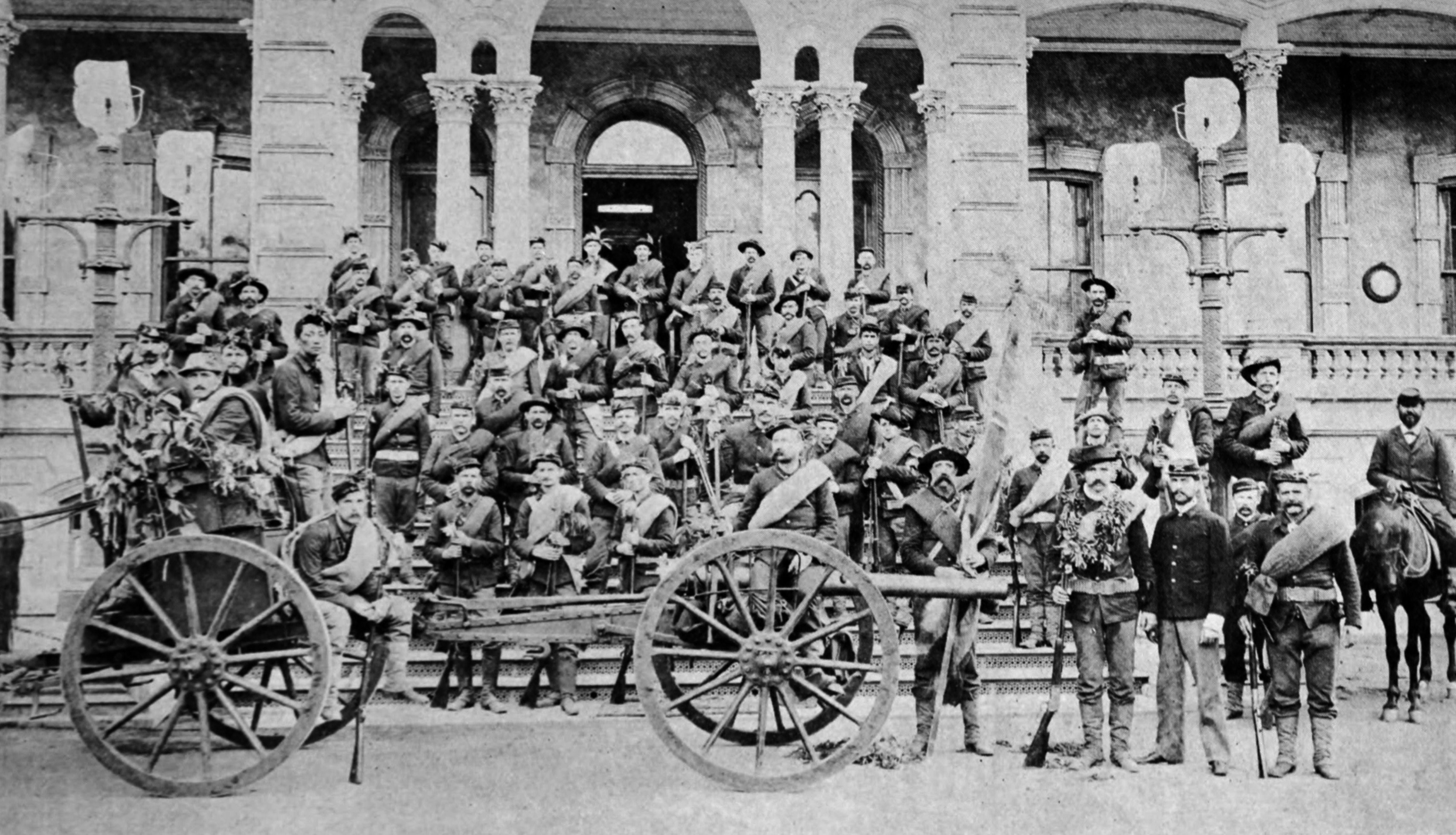 Troops of the Republic of Hawaii, photographed on the front step of the Iolani Palace on their return from service against Hawaiian revolutionist in the uprising of 1895.